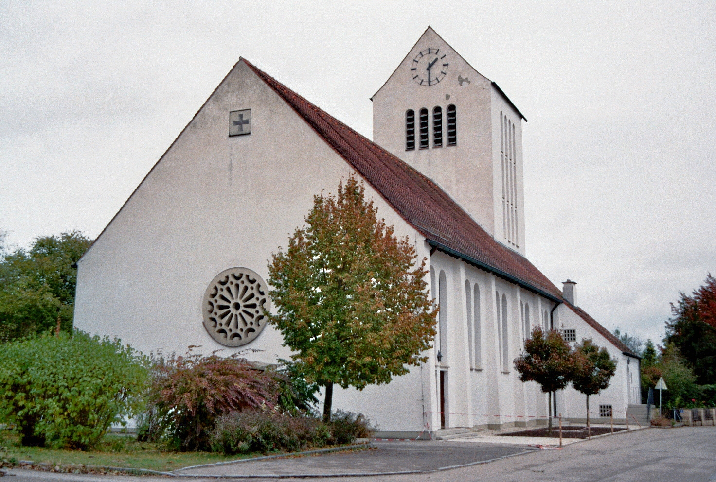 Roman Catholic St Mary Immaculata (St. Maria Immaculata) Church in Walda, Ehekirchen, District Neuburg-Schrobenhausen, Bavaria, Germany. The church interior is a listed cultural heritage monument.